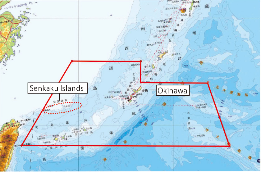 The administrative rights of all of the islands within the area inside the straight lines on the map were returned to Japan in 1972 in accordance with the Okinawa Reversion Agreement. The Senkaku Islands are included in this area.